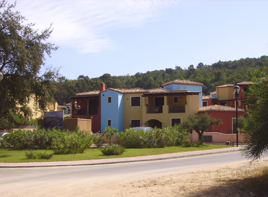 Colorful dress in Arbatax, Tortoli, Italy